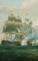 Detail showing HMS Donegal engaging the French Jupiter.